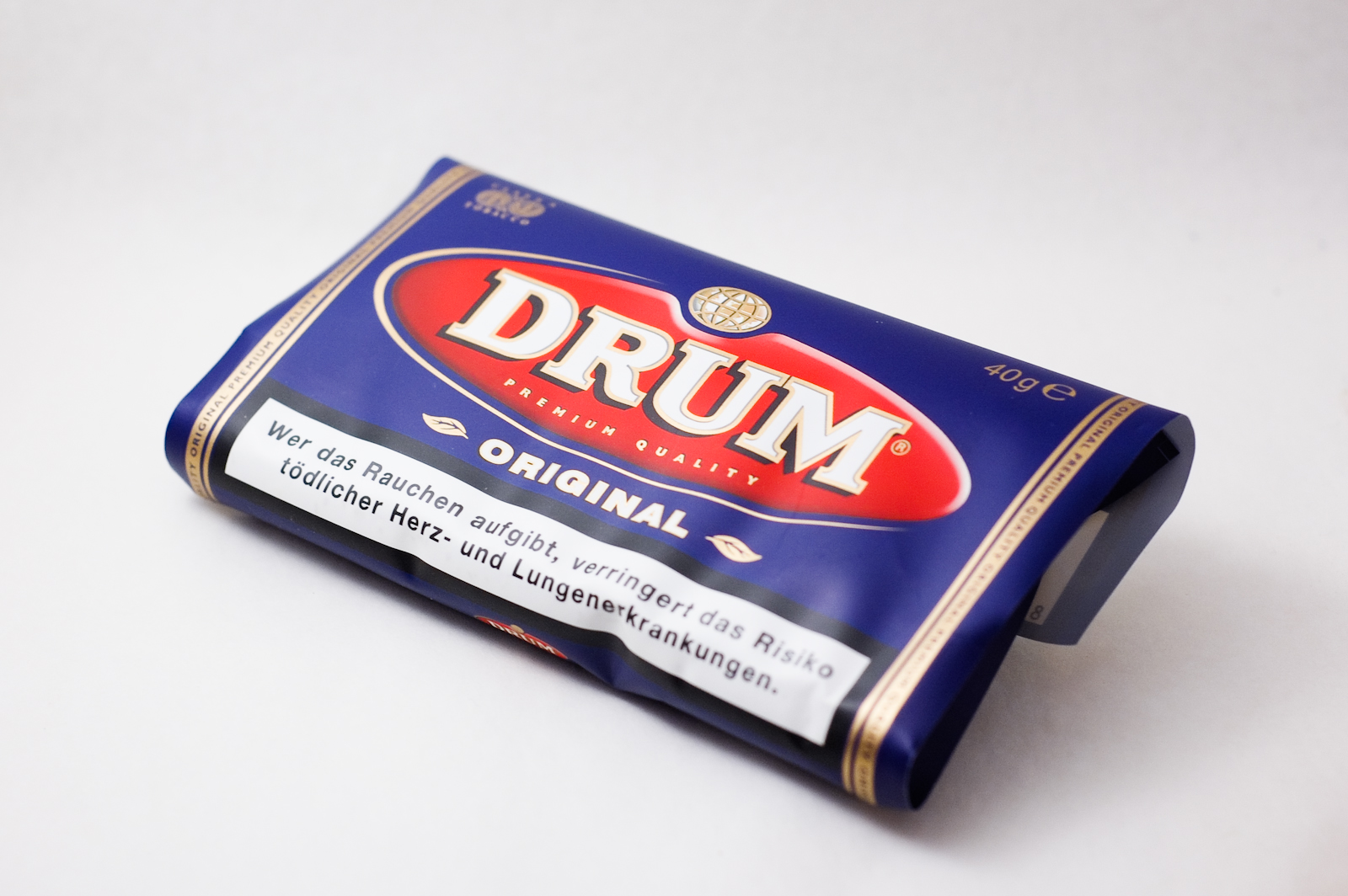 "Drum Original" tobacco shag (40g )with health warning. Bought in Austria.